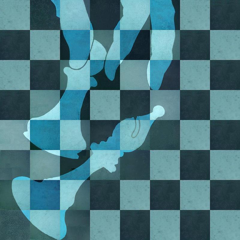 The fifth of the six giant chess boards at Place Émilie-Gamelin, Montreal.